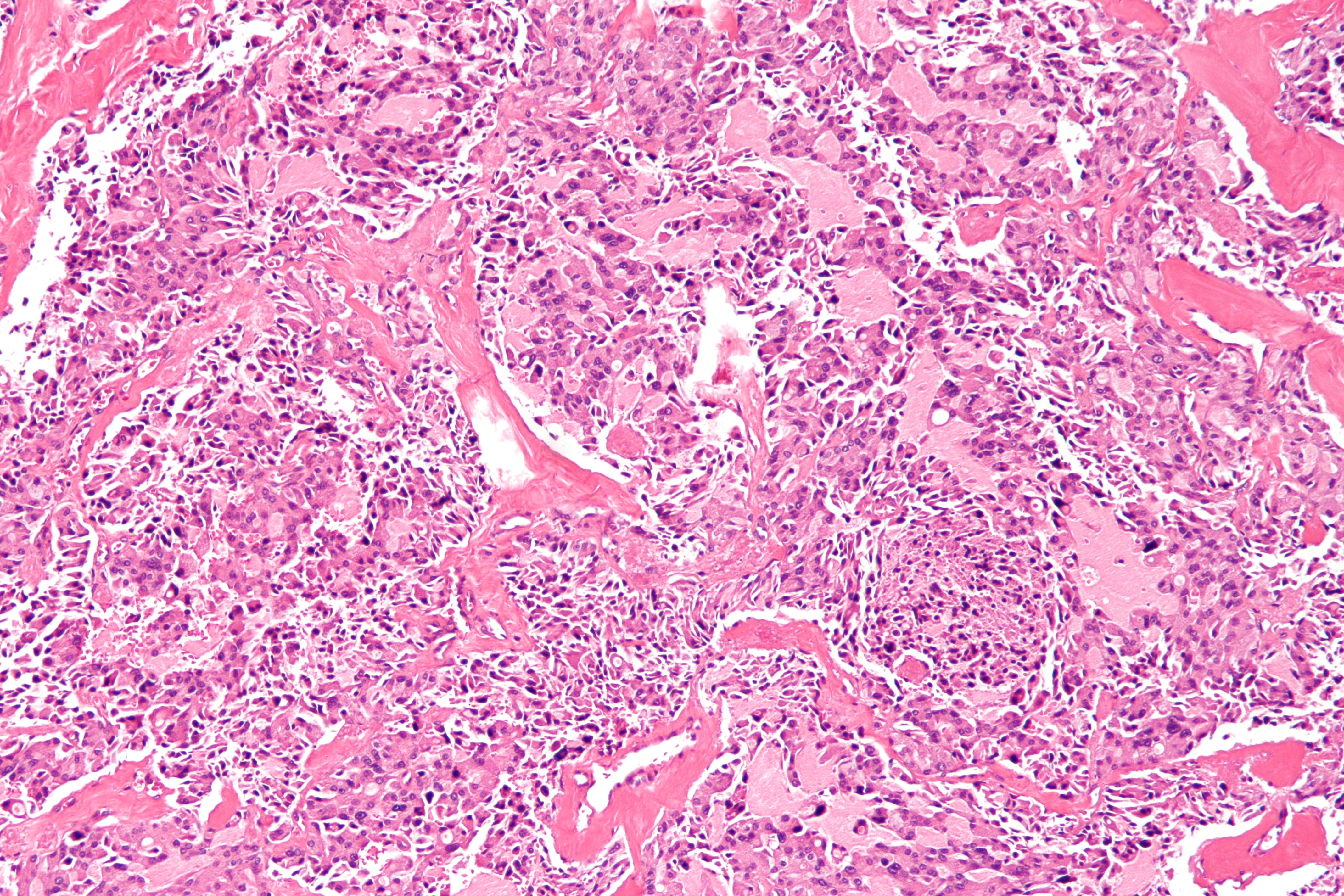 Intermediate magnification micrograph of medullary thyroid carcinoma, abbreviated MTC. H&E stain. MTC can be remembered by the 3 Ms: aMyloid. Median node dissection. MEN 2A & MEN 2B. It typically stains with: Calcitonin. CEA. Chromogranin A. Multiple endocrine neoplasia 2A: Medullary thyroid carcinoma. Parathyroid adenoma. Pheochromocytoma. Multiple endocrine neoplasia 2B: Medullary thyroid carcinoma. Pheochromocytoma. Neuromas/ganglioneuromas. Related images Low mag. Intermed. mag. High mag. Intermed. mag. High mag. Very high mag.